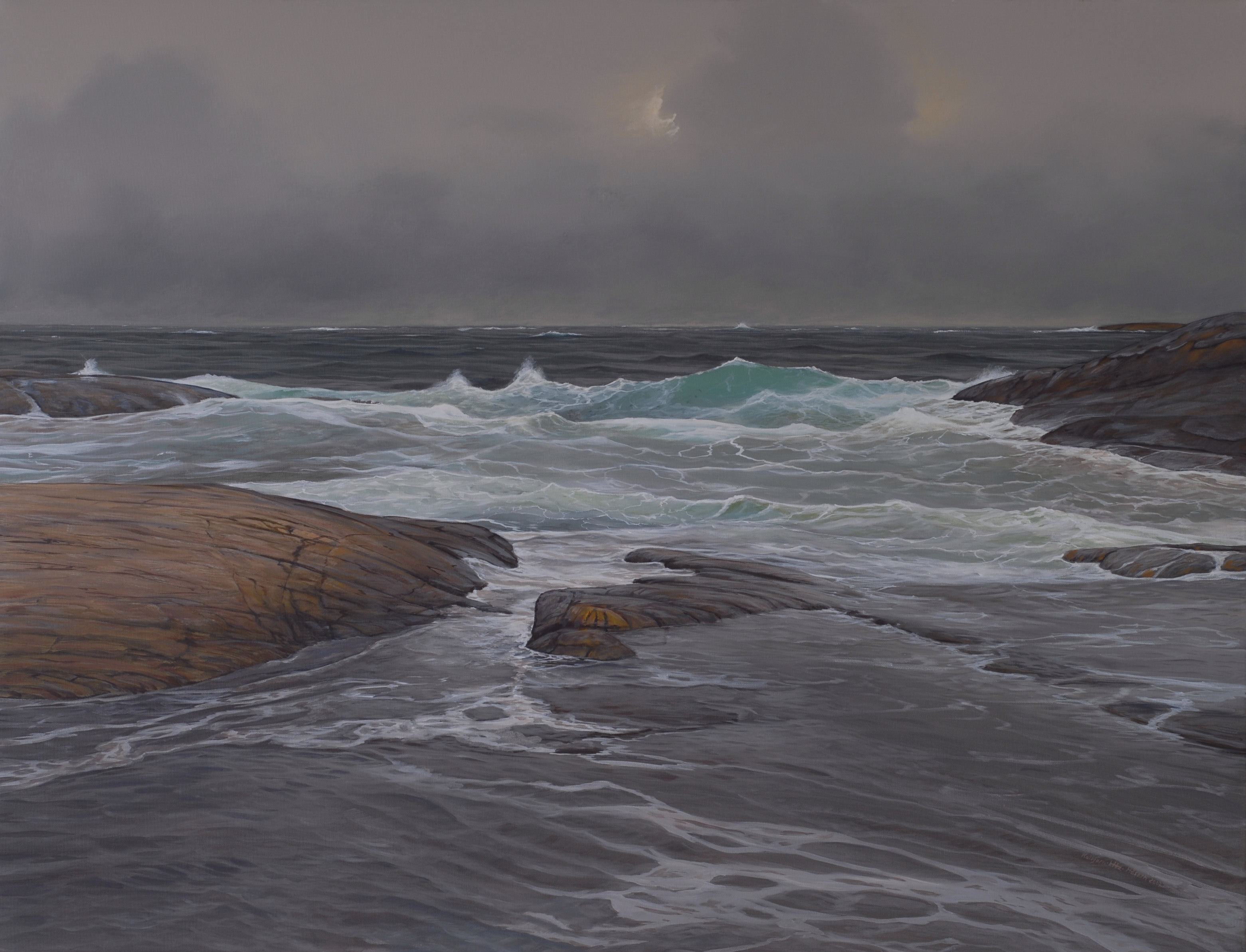 Picture of painting by Kolbjørn Håseth - "Patterns of Movement", acrylic 2007, 89 cm x 116 cm